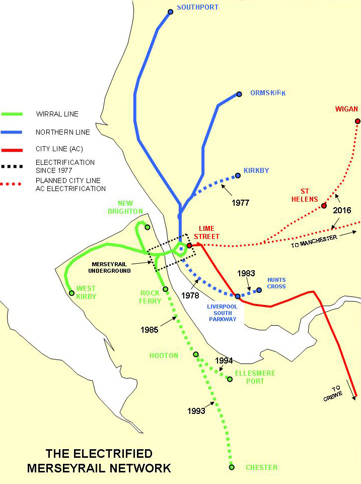 Map of the Merseyrail system showing dates of electrification